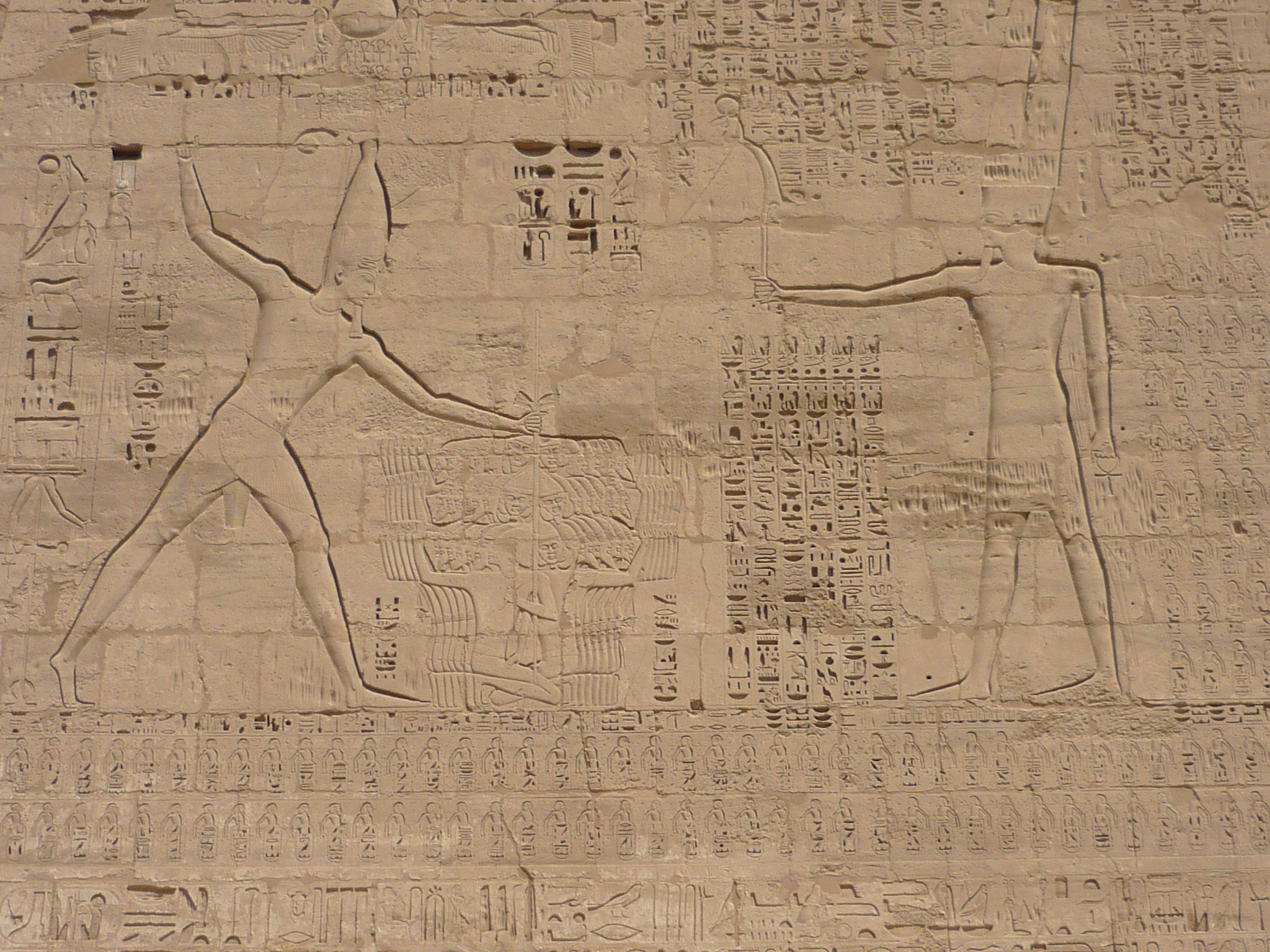 Wall relief with Ramses III and Amun, mortuary temple of Ramses III, Medinet Habu, Theban Necropolis, Egypt